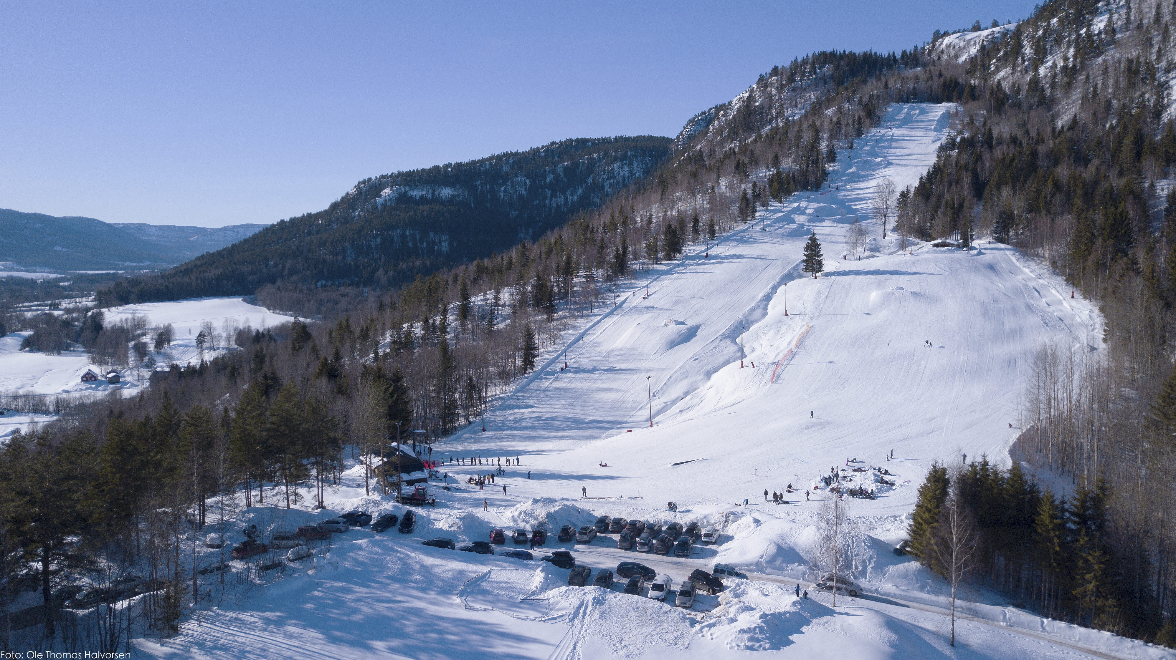 Bergerbakken 2018